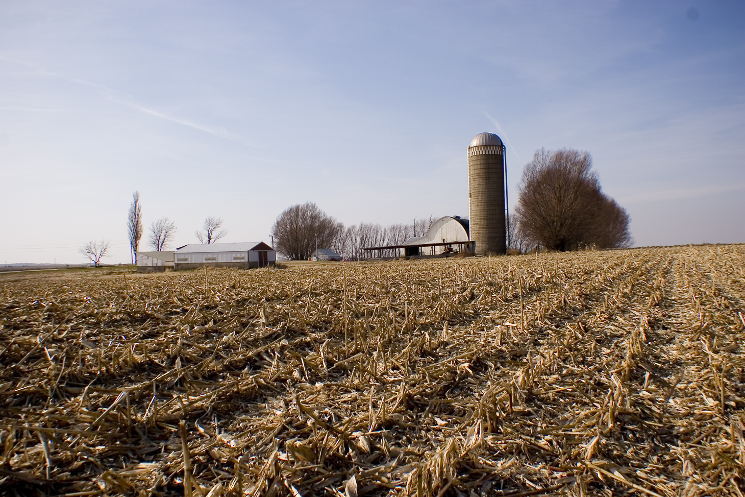 A farm near Hopkinton. A farm in the vicinity of Hopkinton.